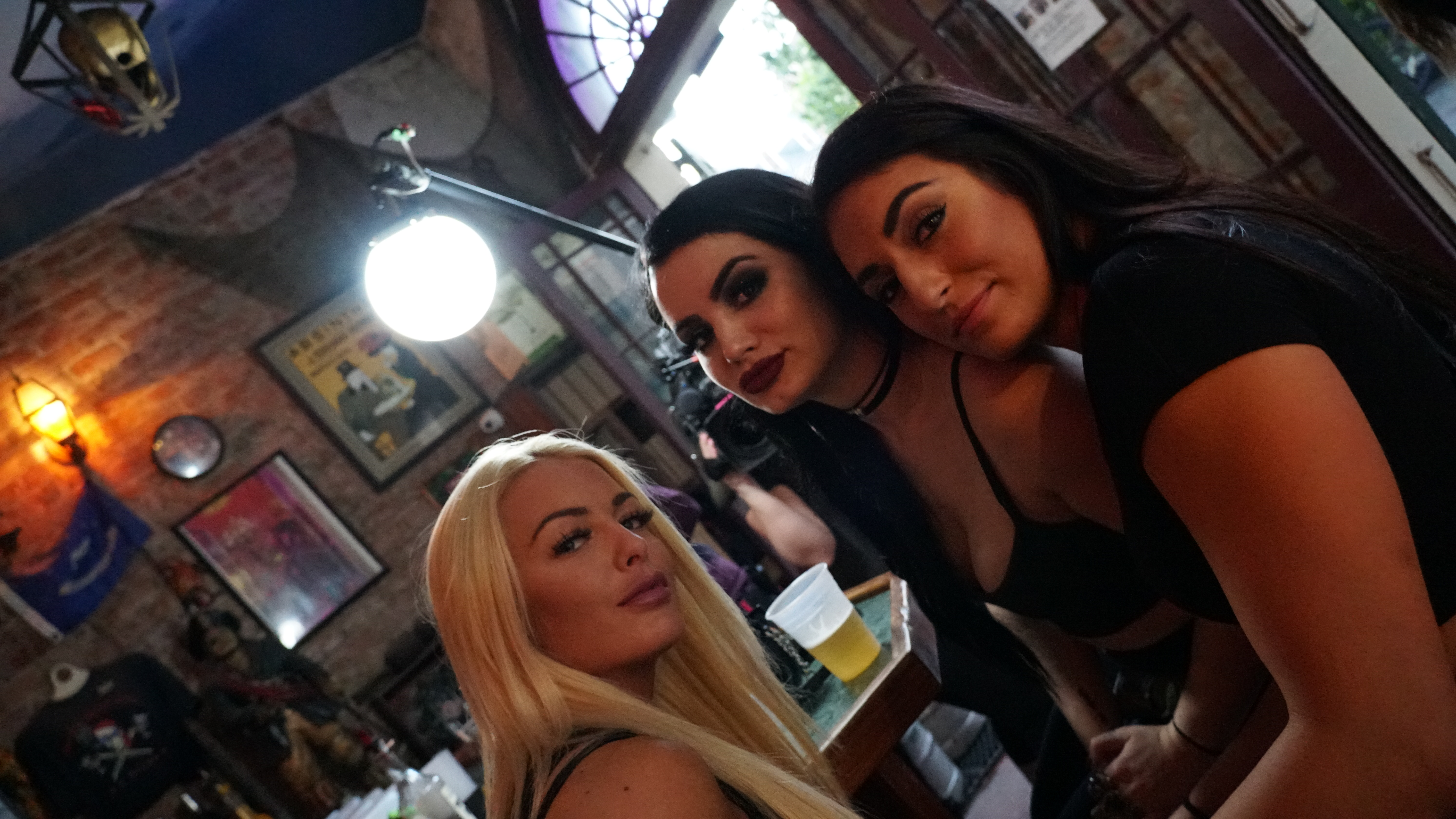 NOLA 2018 - WWE Total Diva Arriver par hasard dans le tournage de 'Total Diva', ca c'est fait ... ( Deux semaines a Nola pour la ville et pour WWE Wrestlemania XXXIV Two weeks Nola for the city and for WWE Wrestlemania XXXIV )